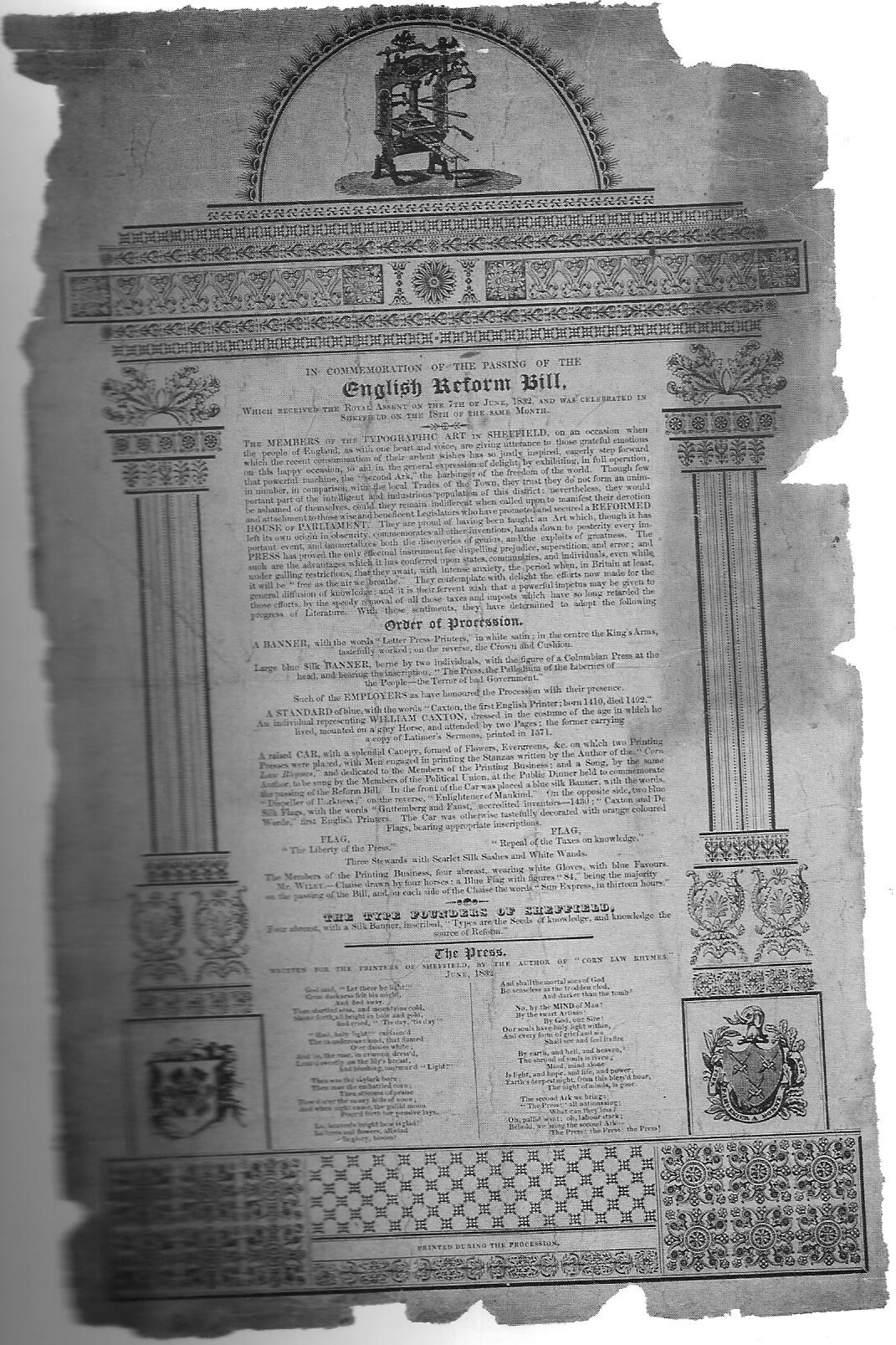 Poster issued by the Sheffield Typographical Society in celebration of the passing of the 1832 Reform Act.